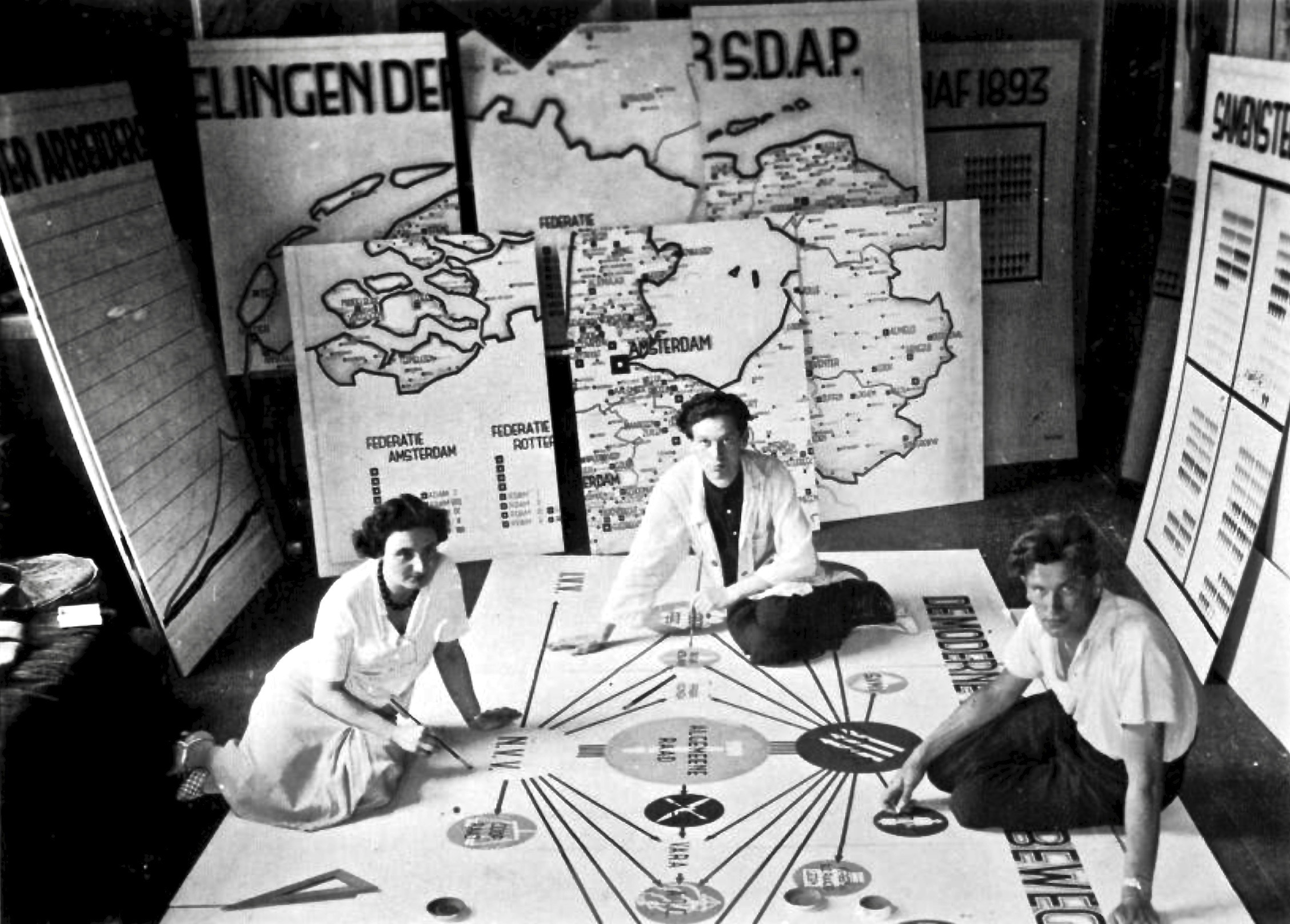 Fré Cohen (left) in her atelier in Amsterdam